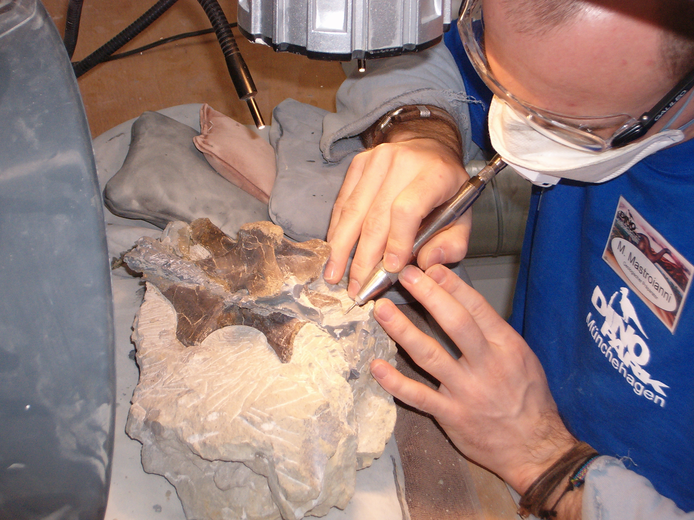 Preperation of fossil bones of Europasaurus holgeri.